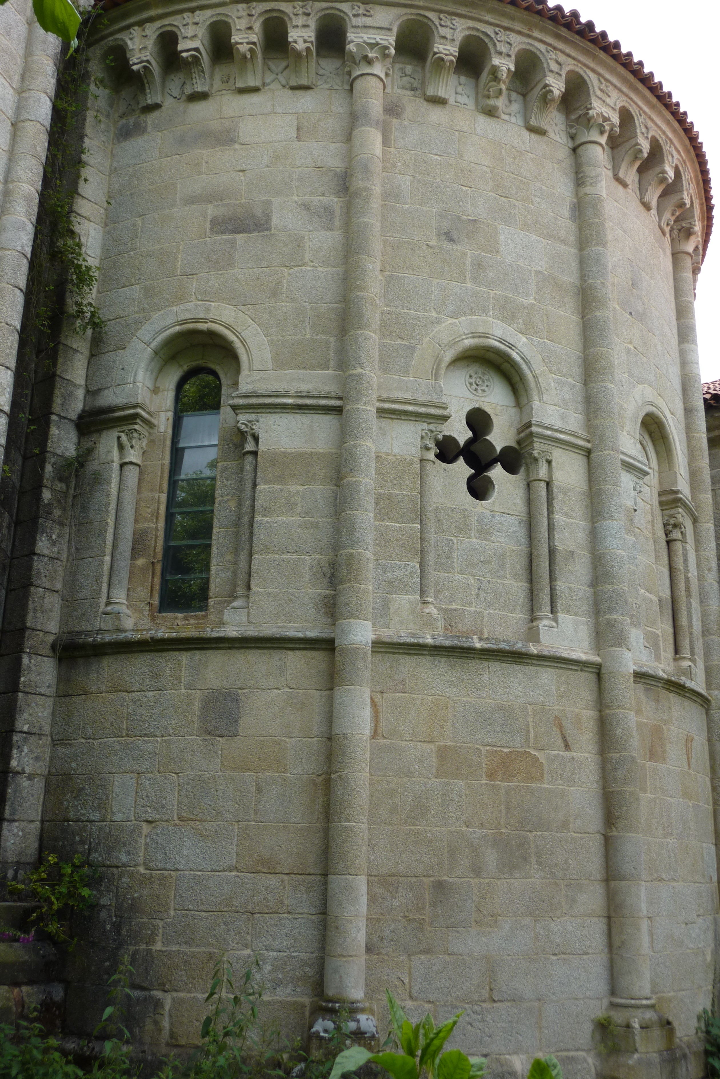 Church of Santo Estevo de Ribas do Sil in Luíntra: apses